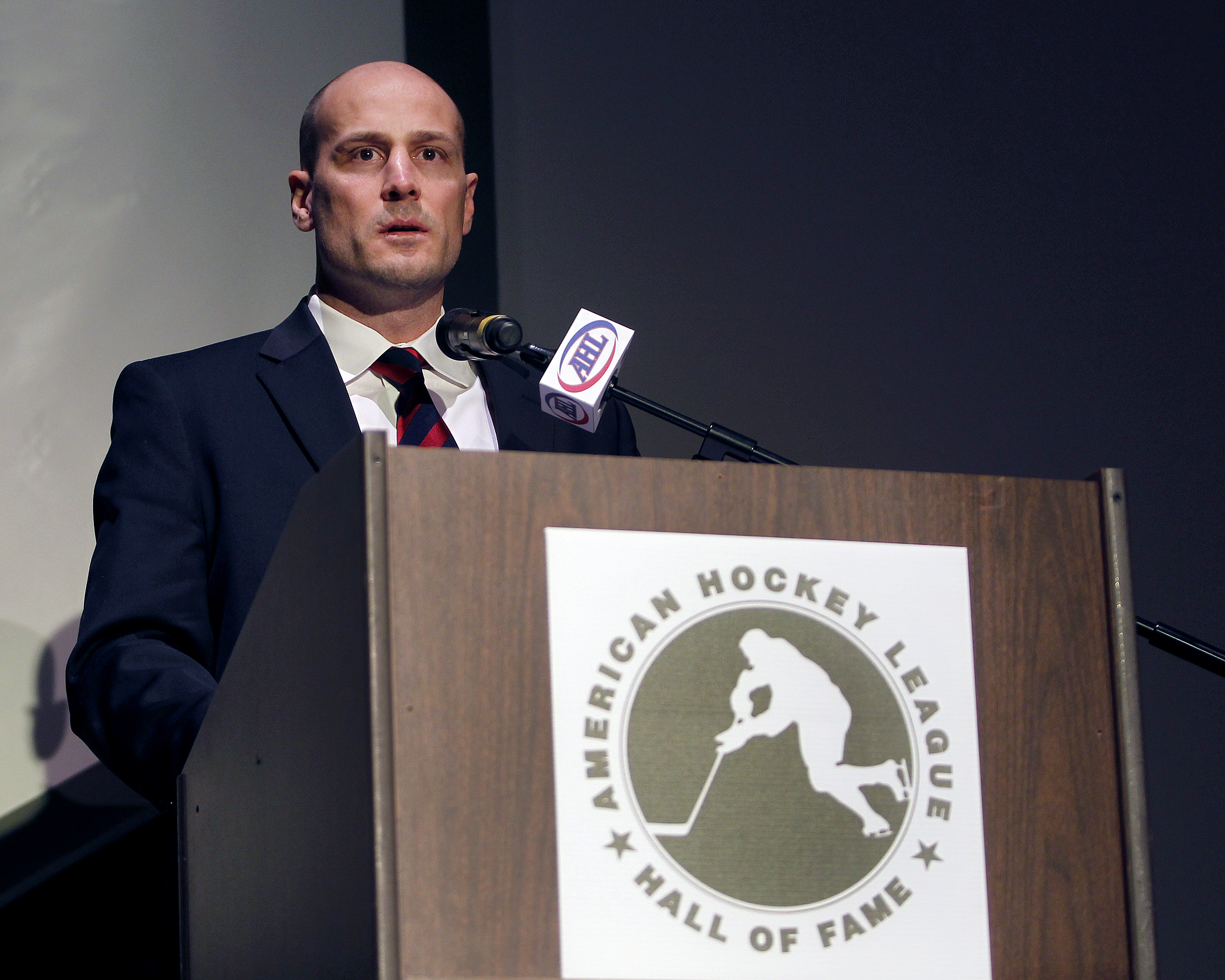 Alan Sullivan - Photographer American Hockey League (AHL). 2013 AHL Hall of Fame Ceremony. Taken on January 28, 2013.